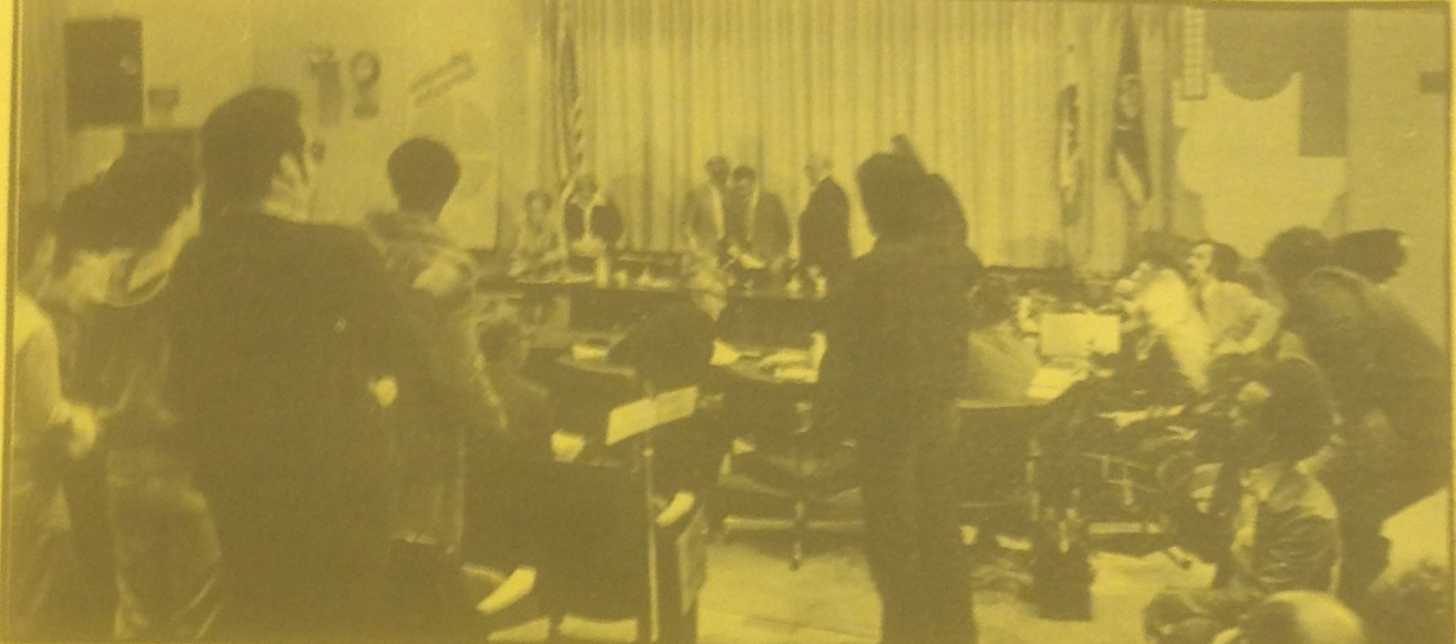 Students in favor of overturning the California Supreme Court's decision in Bakke v. Regents of the University of California protest at a meeting of the University's Regents, June 20, 1977